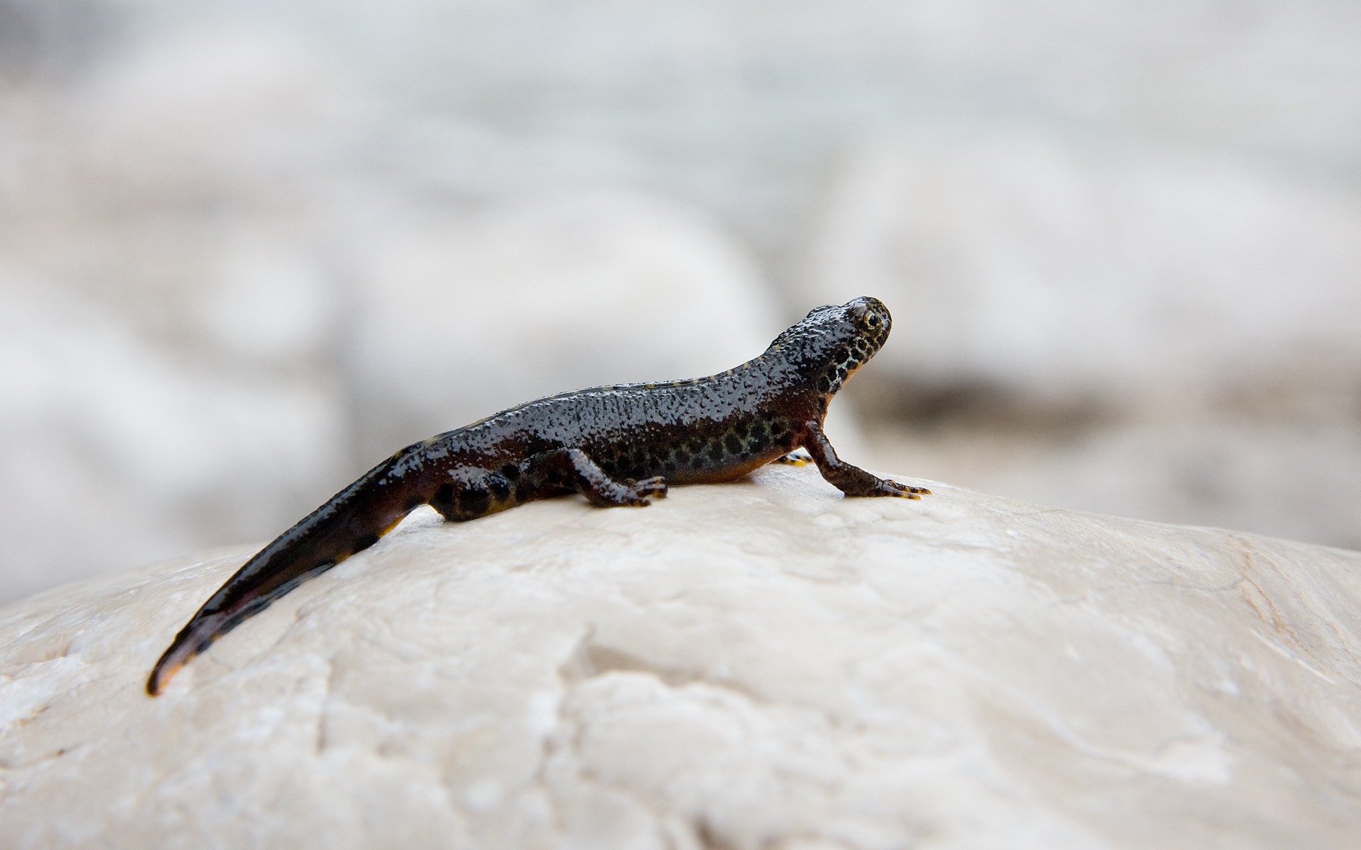 The Alpine Newt (Triturus alpestris) belongs to the order Salamander (Urodela or Caudata) in the class of Amphibians.